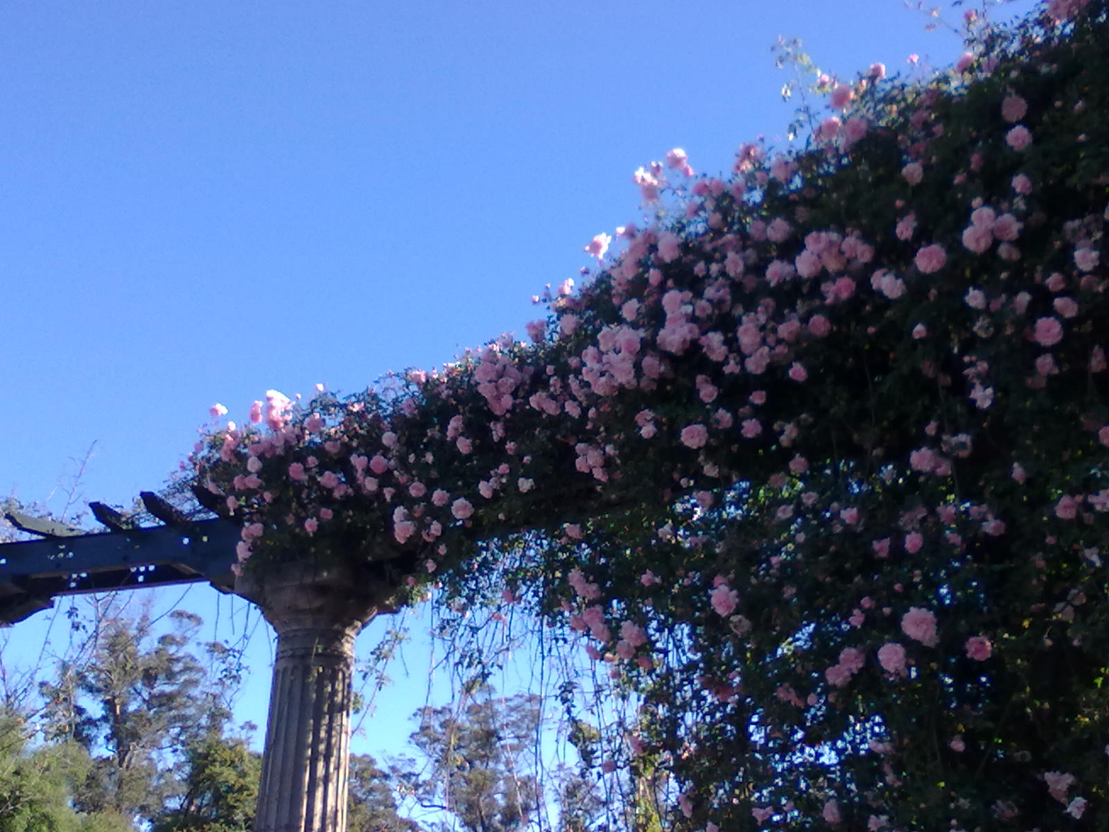 Rosedal Montevideo